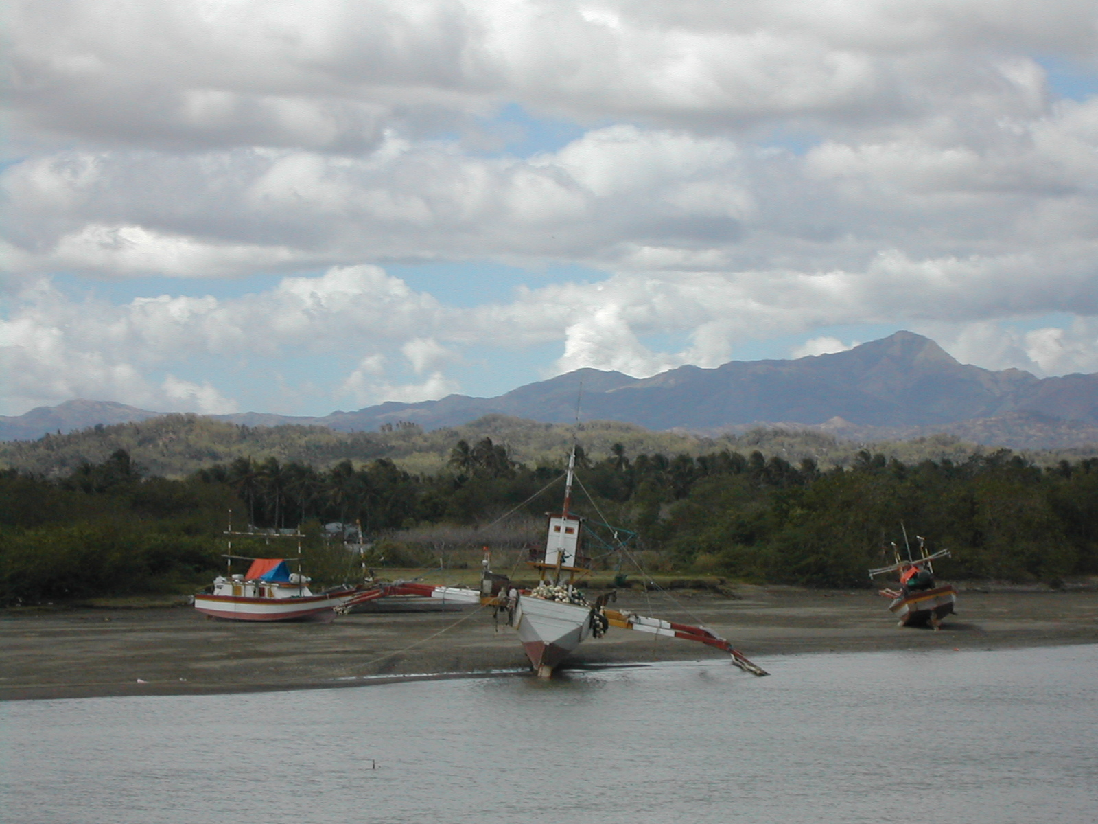 Local fishing boats in the Philippines